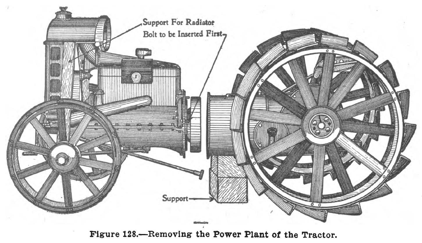 A drawing of the original Fordson tractor being disassembled, showing the unit-frame construction and how the tractor can be taken apart for service with appropriate blocks of wood inserted to support the various separated parts.